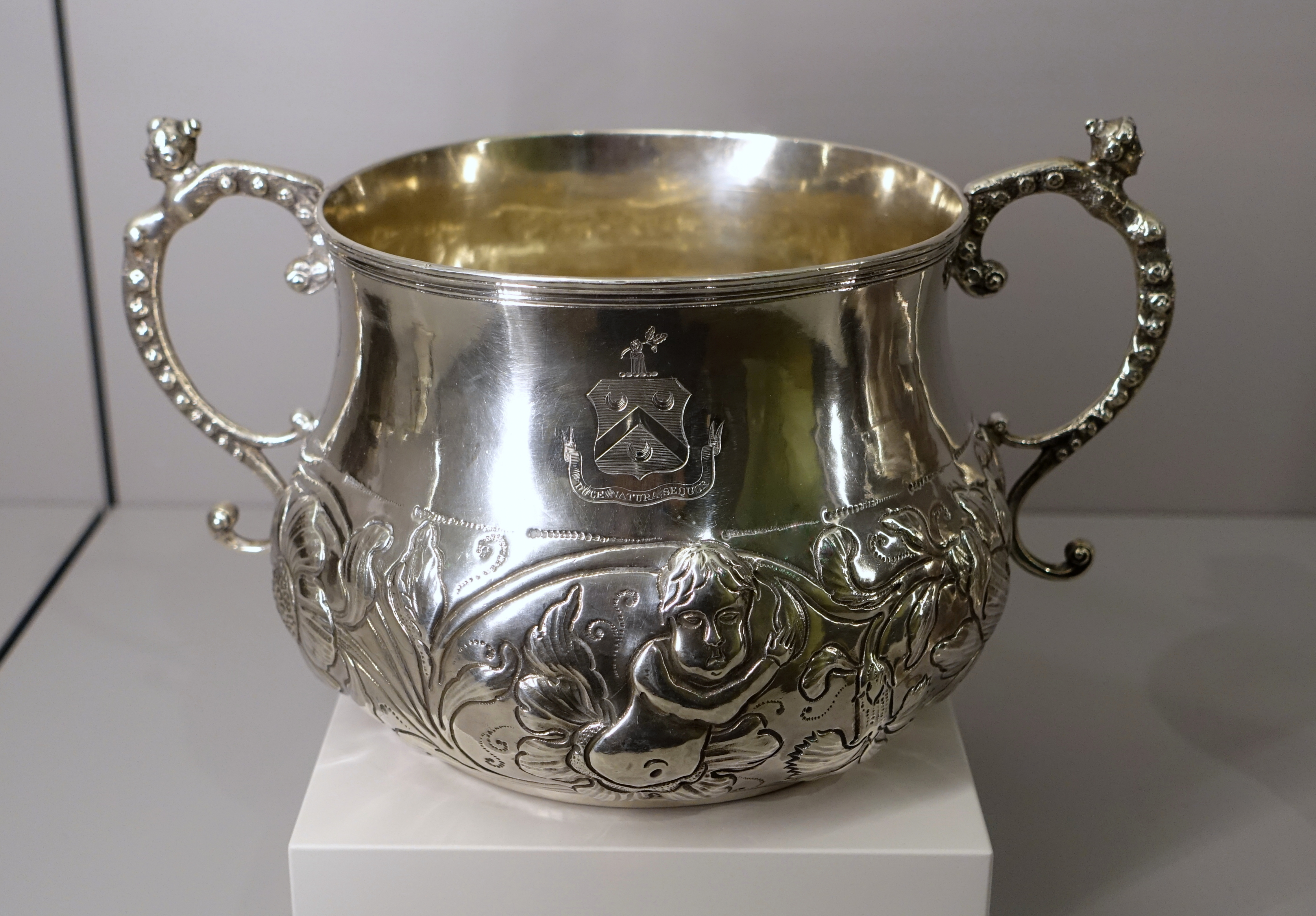 Exhibit in the Fogg Art Museum, Harvard University, Cambridge, Massachusetts, USA. This artwork is in the public domain because the artist died more than 70 years ago.